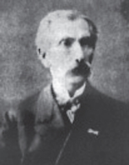 The Georgian entrepreneur Zubalashvili